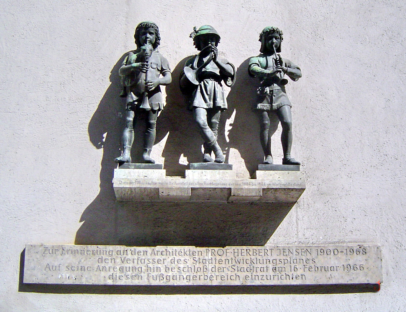 Group of figures at the northern side of the Karlstor in Munich, Germany